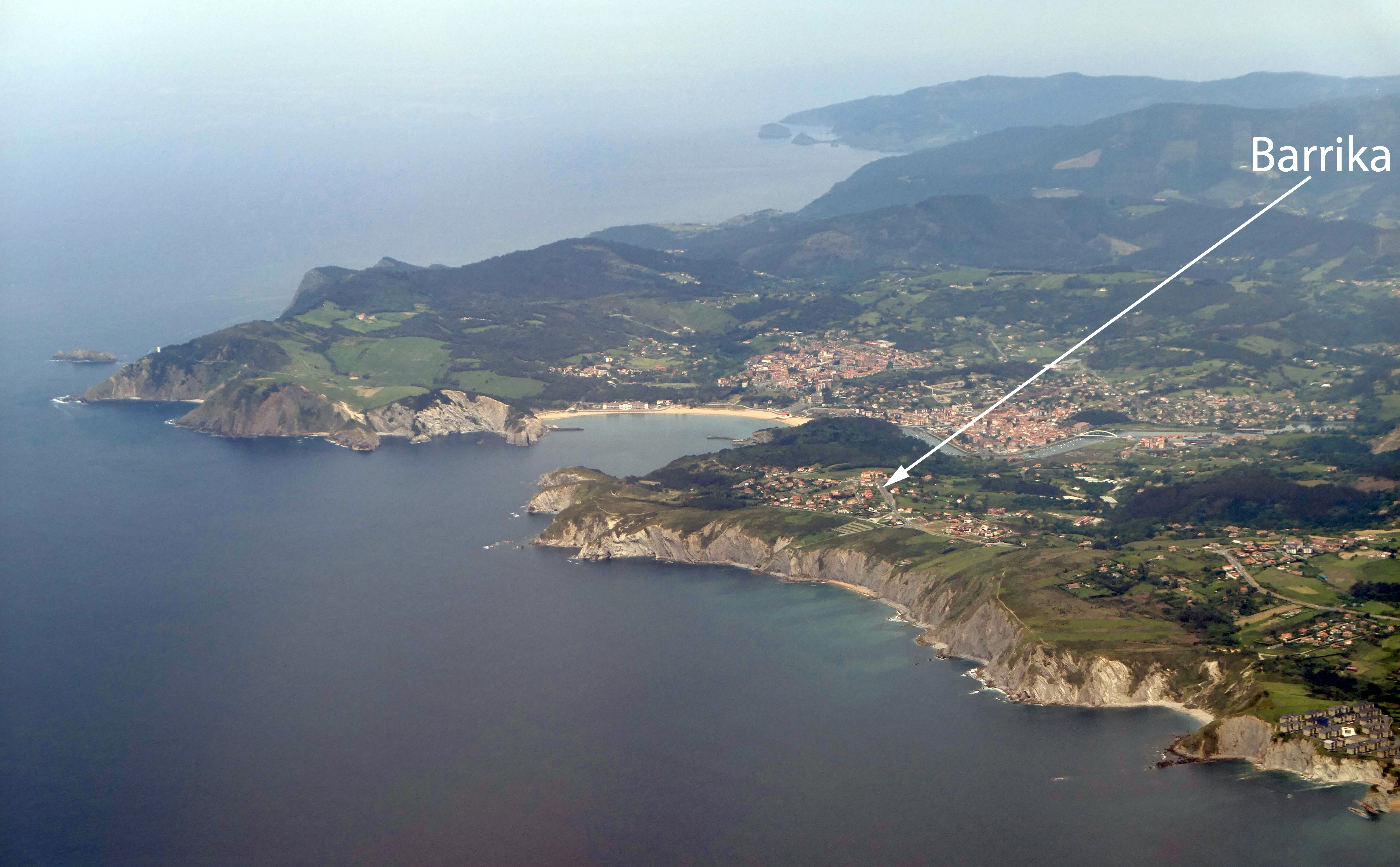 An aerial photograph of Barrika, a small town in the Basque Country, north of Bilbao.